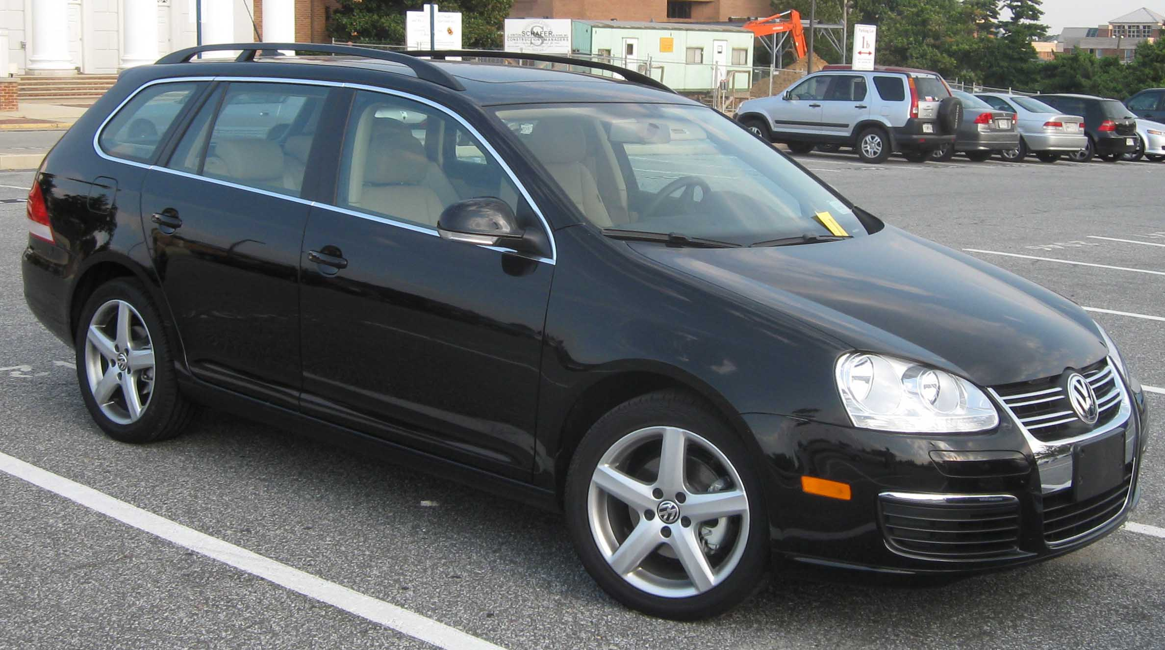 2009 Volkswagen Jetta photographed in College Park, Maryland, USA.